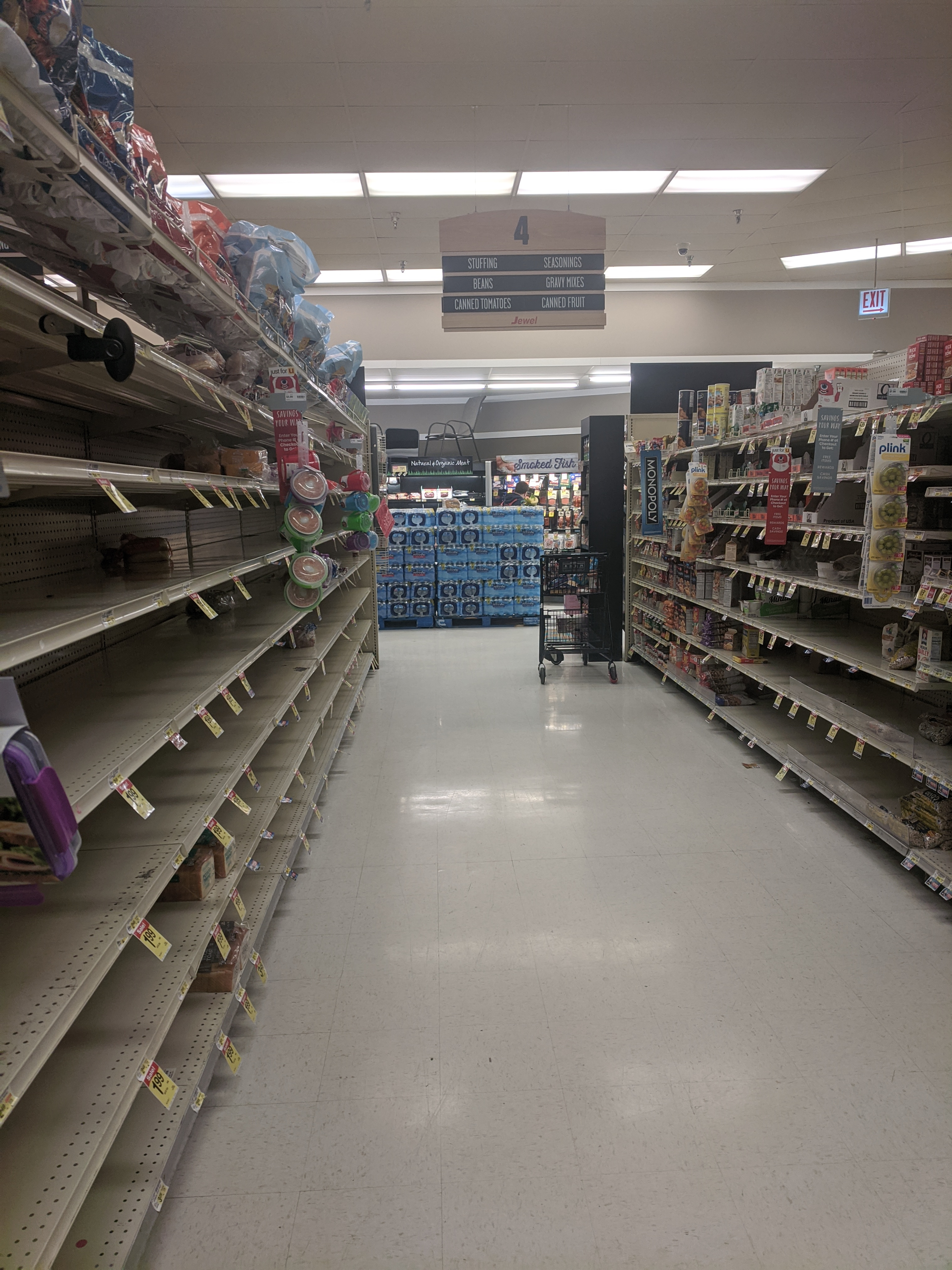 Aisle for bread and other items at a Jewel supermarket in the Lincoln Square neighborhood of Chicago on 13 March 2020 during the COVID-19 pandemic.